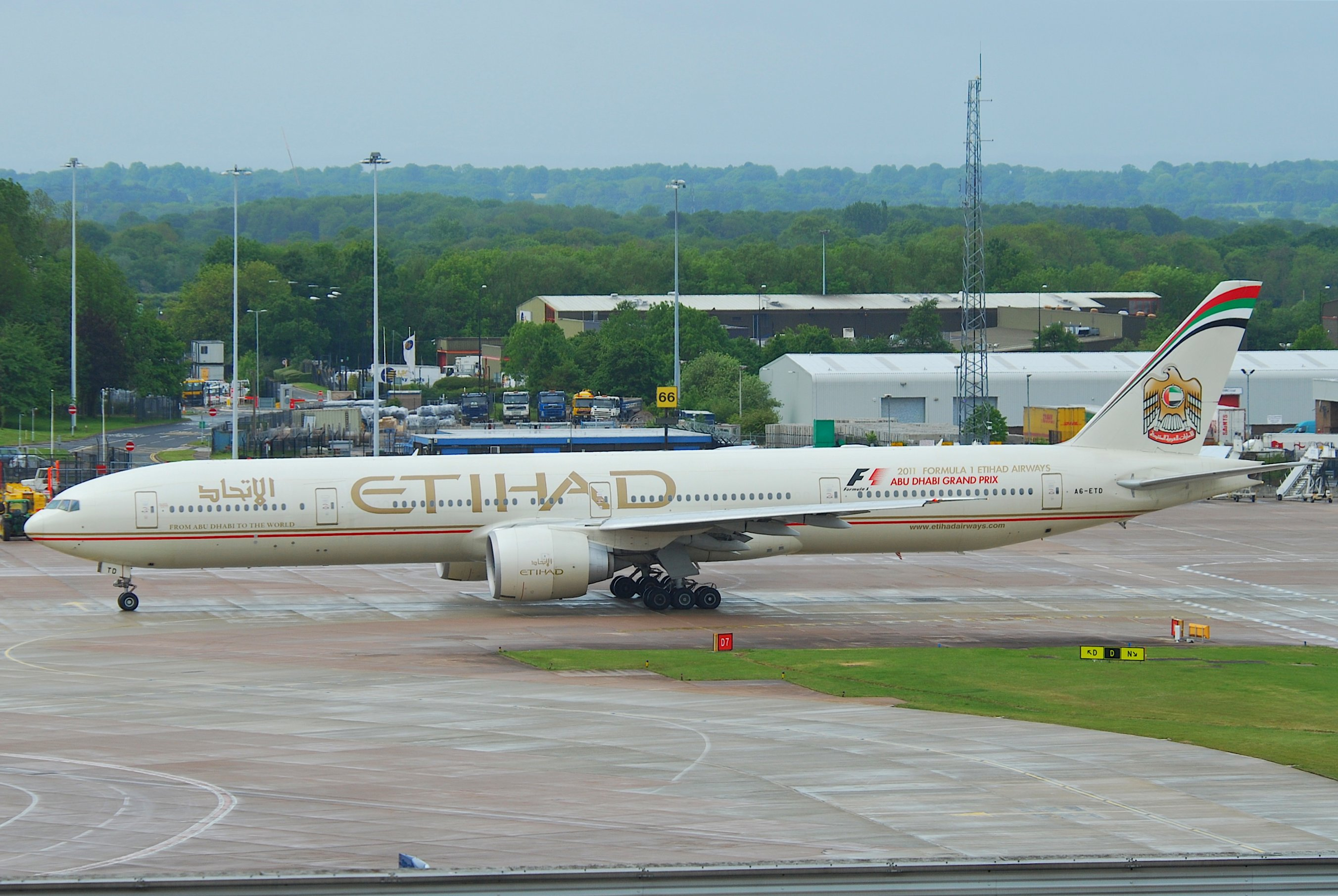 This Boeing 737-3FX ER took its first flight on January 17, 2006...(c/n 34600/ 547)